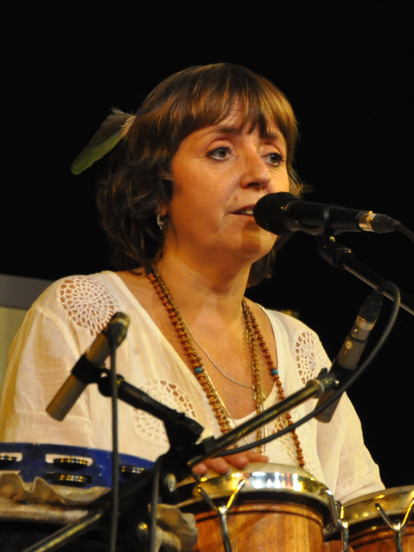 Barbora Hrzánová during a concert with music group Condurango in the town of Nové Město na Moravě, 2012.